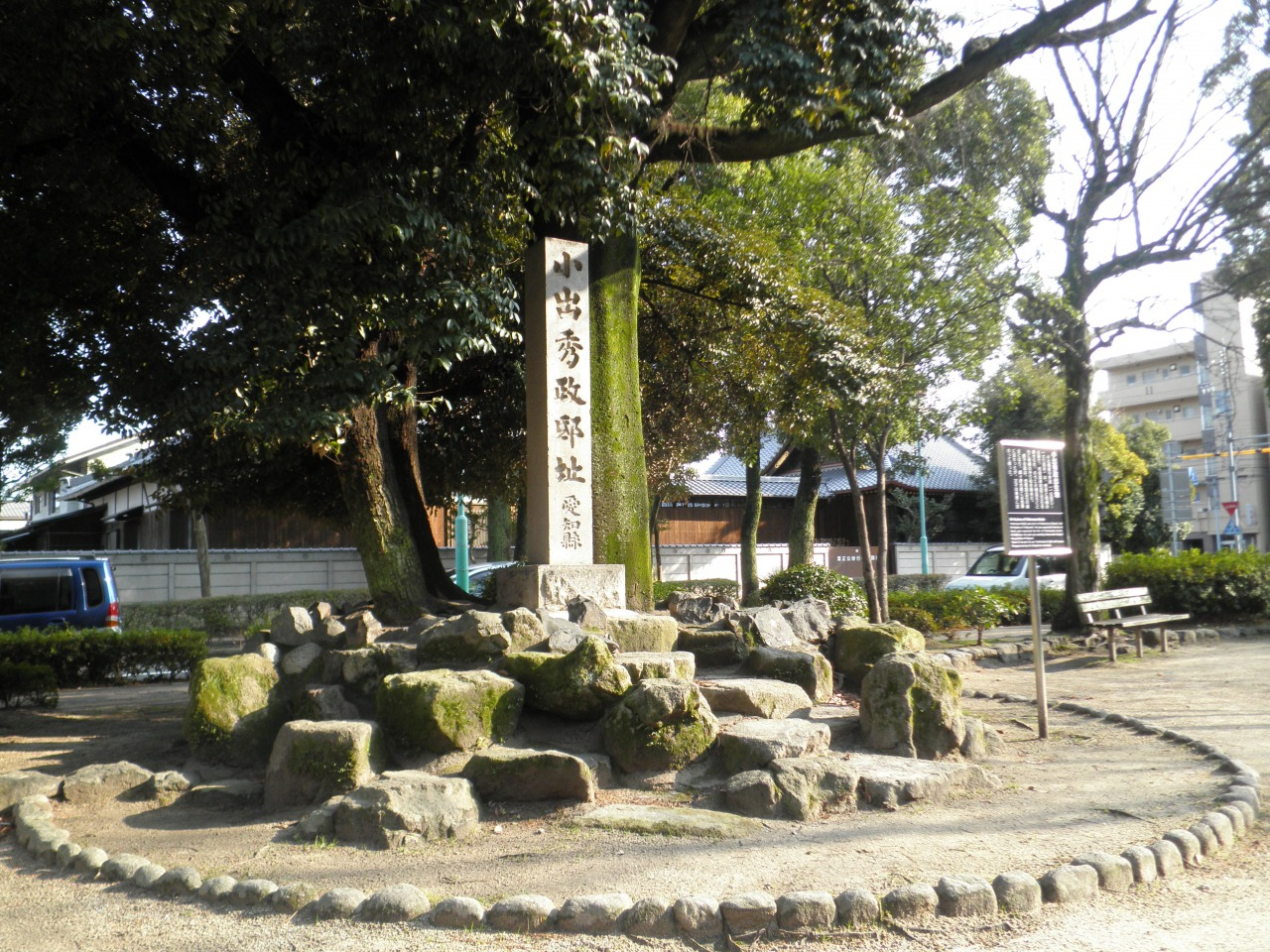 The birthplace of Koide Hidemasa in Nagoya, Aichi.